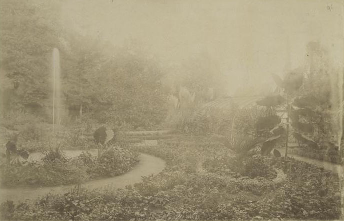 Tiflis: Botanical garden (cultivated part).